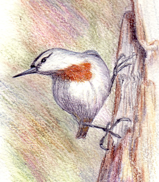 Kruper's Nuthatch Watercolour pencil